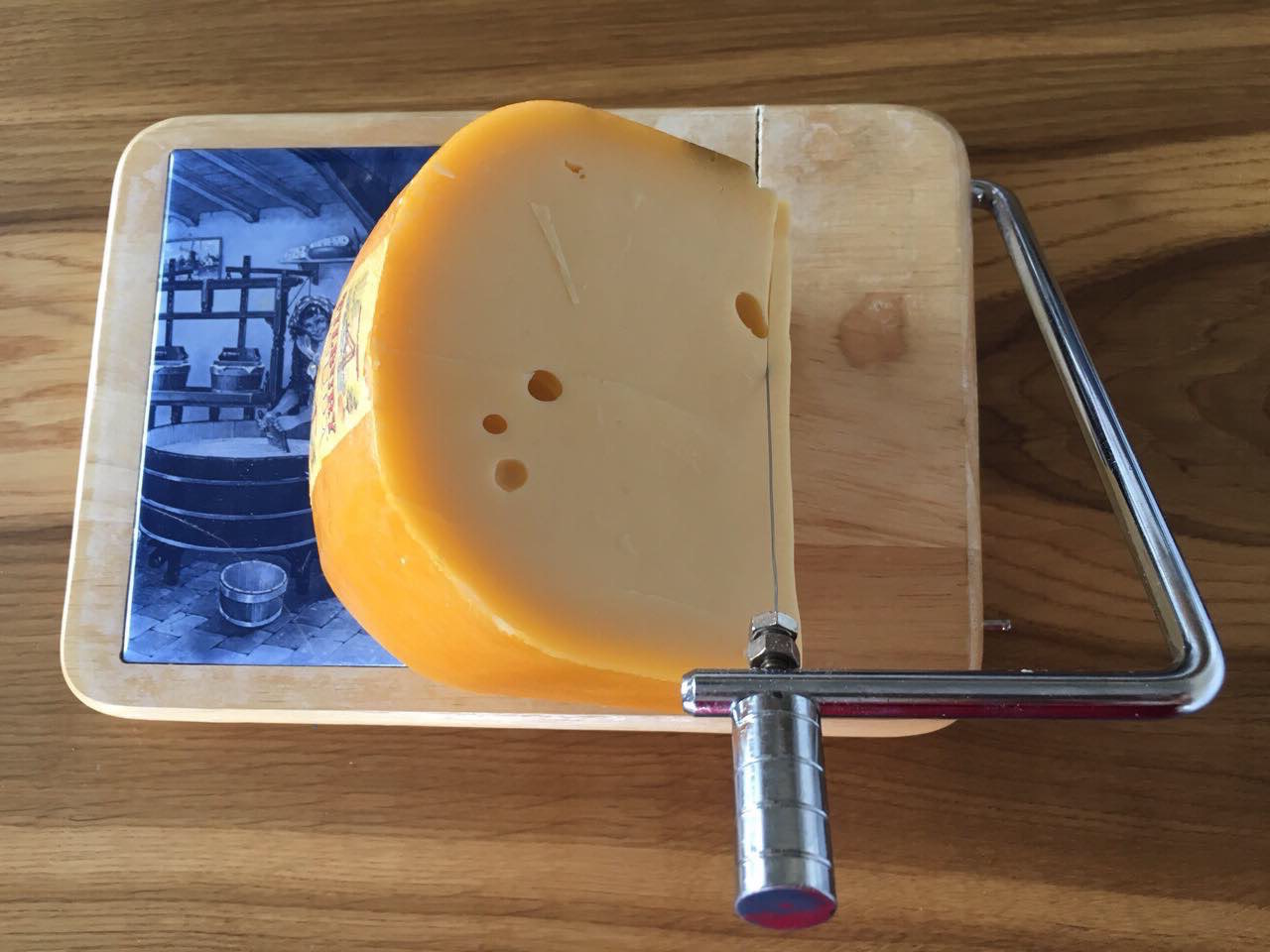 Cheese cutter